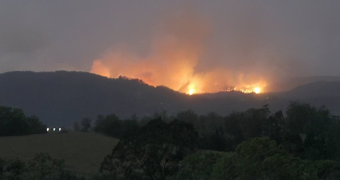 Bushfire in the slope above Tuntable Falls, Nightcap Range, New South Wales, Australia, 8 November 2019 (Tony Rees photograph)